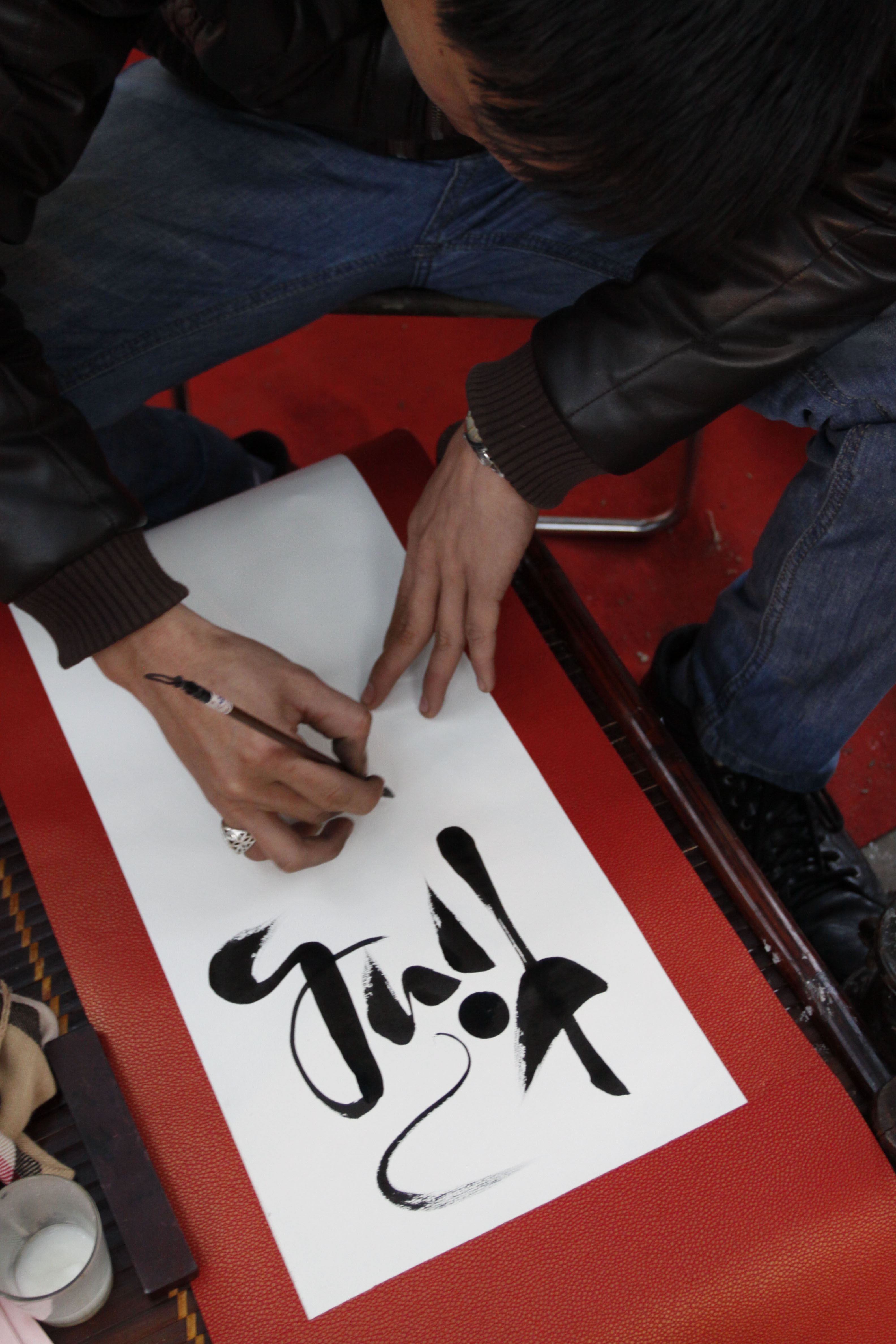 Hán tự calligraphy writing in January at the Temple of Literature, Hanoi.